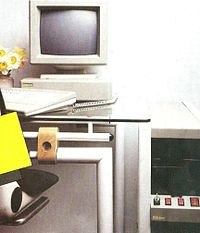 This photos was made and edited be me in M.Pupin Institute-Belgrade, on October 1988. It was published in my book: TIM Computers,p.150,Ed.N.knjiga,Belgrade 1990, Also,the figure exists in the M.Pupin Institute Marketing Dept.archive (for given consent see: ).